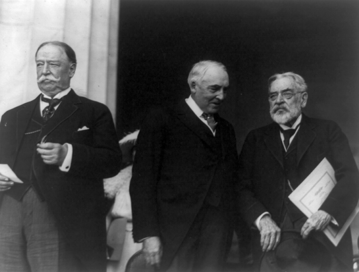 William Howard Taft, Warren G. Harding, and Robert Todd Lincoln, standing, left to right. At Lincoln Memorial.